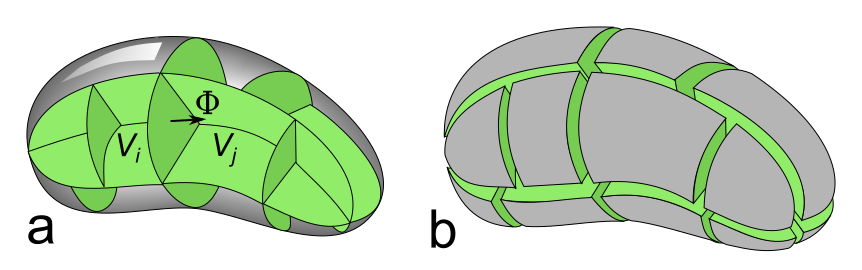 Diagram of an arbitrary volume partitioned into several parts, used in a proof of the Divergence theorem. It illustrates that the flux of a vector field out of the original volume is equal to the sum of the flux out of the component volumes. This is because the flux through the partitions (green surfaces) is positive for one volume but negative for the other, so it cancels out in the sum.